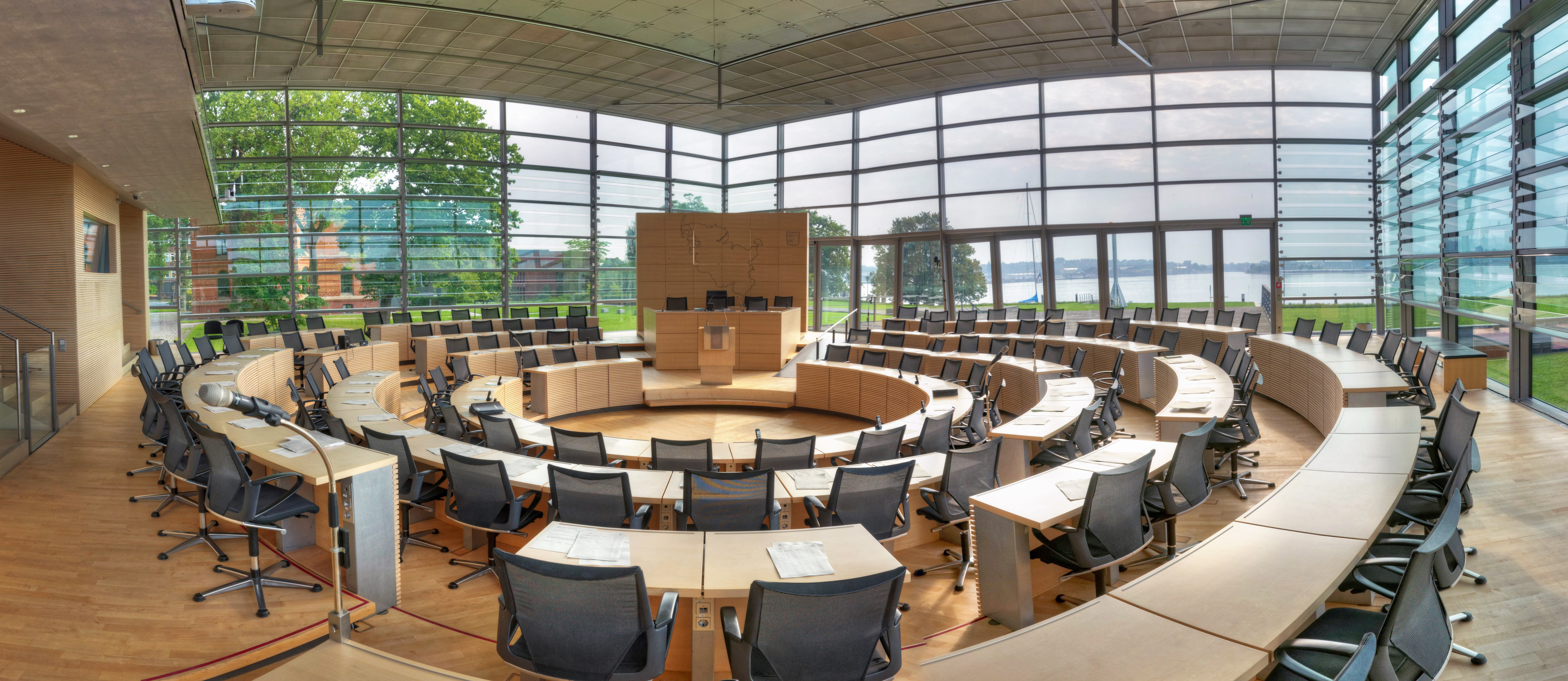 Schleswig-Holstein Parliament in Kiel, Germany.